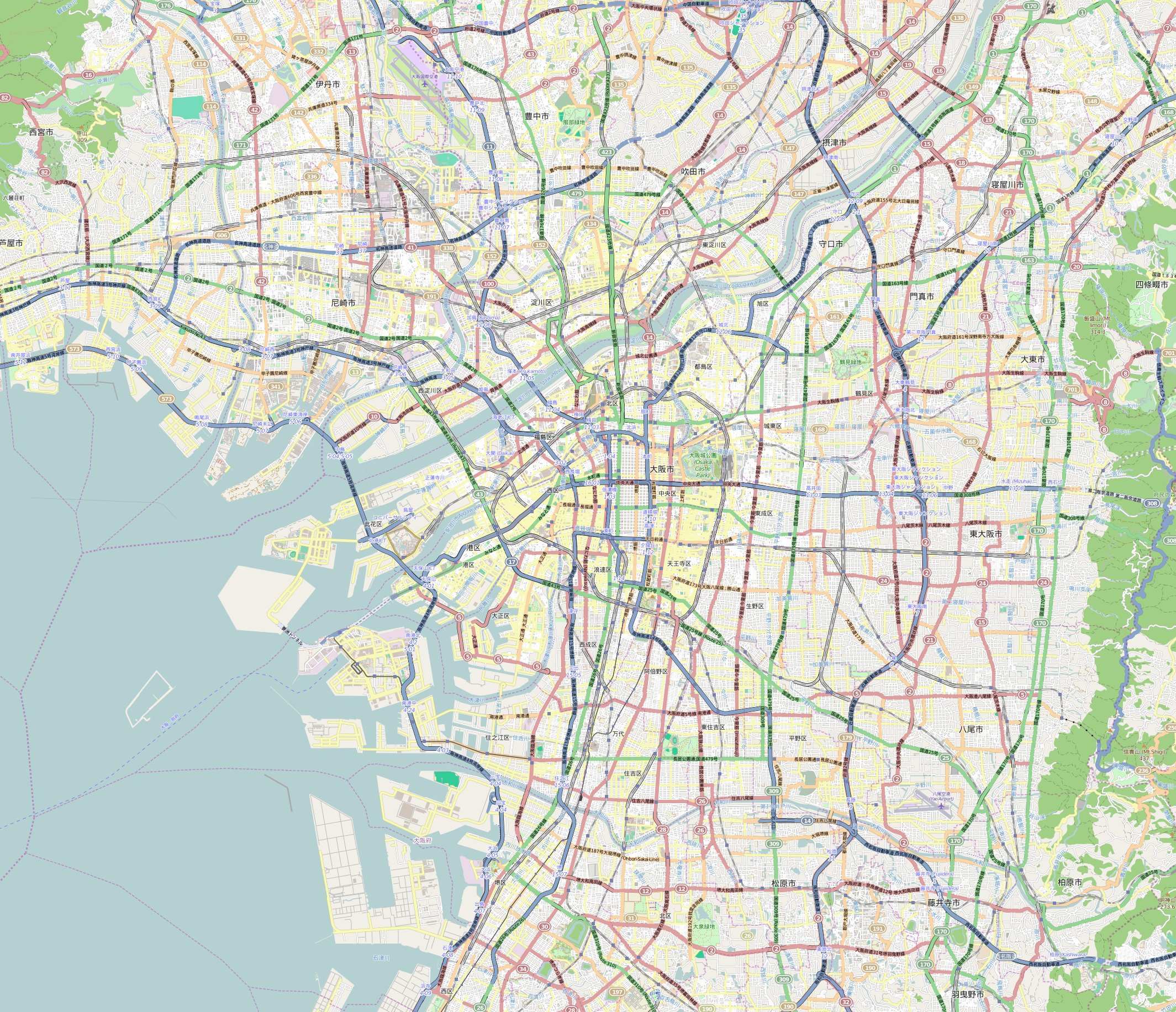 Map of Osaka, Japan This map of Osaka was created from OpenStreetMap project data, collected by the community. This map may be incomplete, and may contain errors. Don't rely solely on it for navigation.